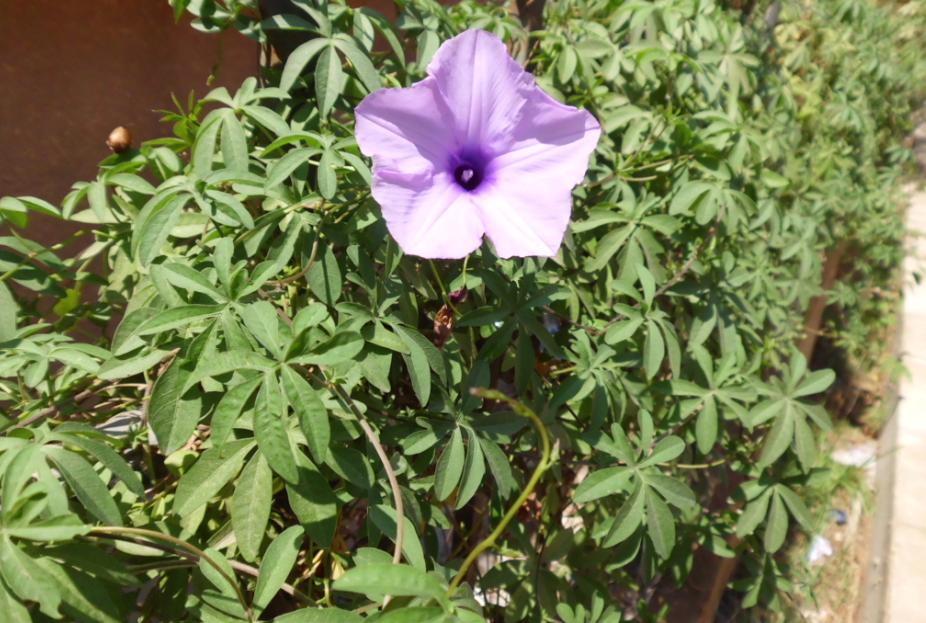 this photo taken at Cairo